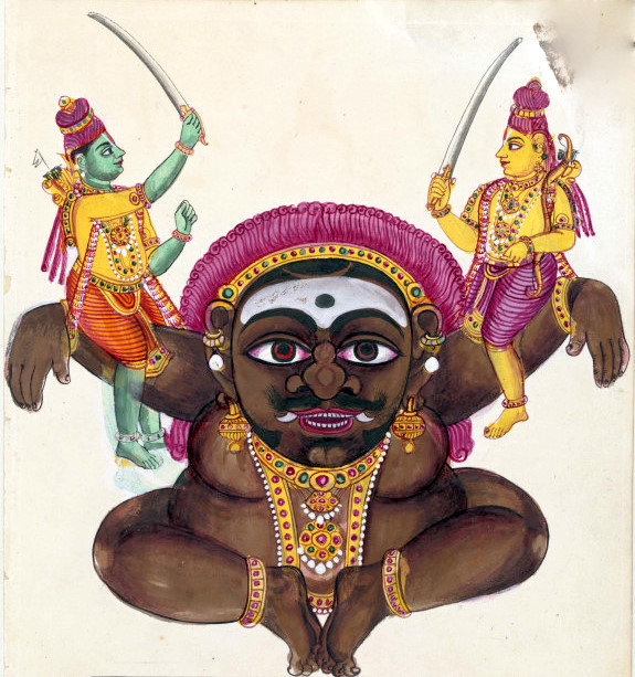 "The 'rakshasa' (demon) Kabandha supporting the brothers Rama and Lakshmana on his arms. The demon is dark-brown and squats with outstretched arms, on which Rama and Lakshmana sit facing each other, brandishing their swords. Rama is green and Lakshmana is golden."